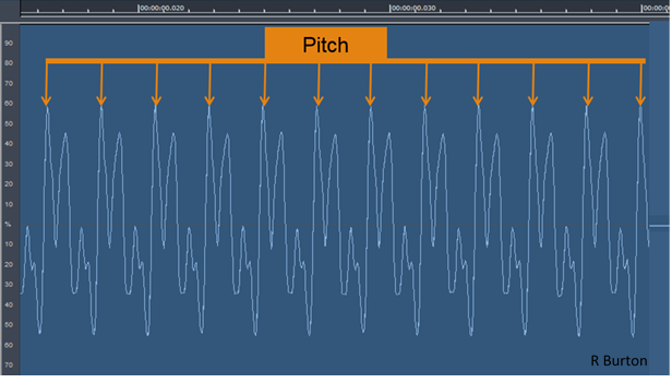 This image shows how we perceive pitch